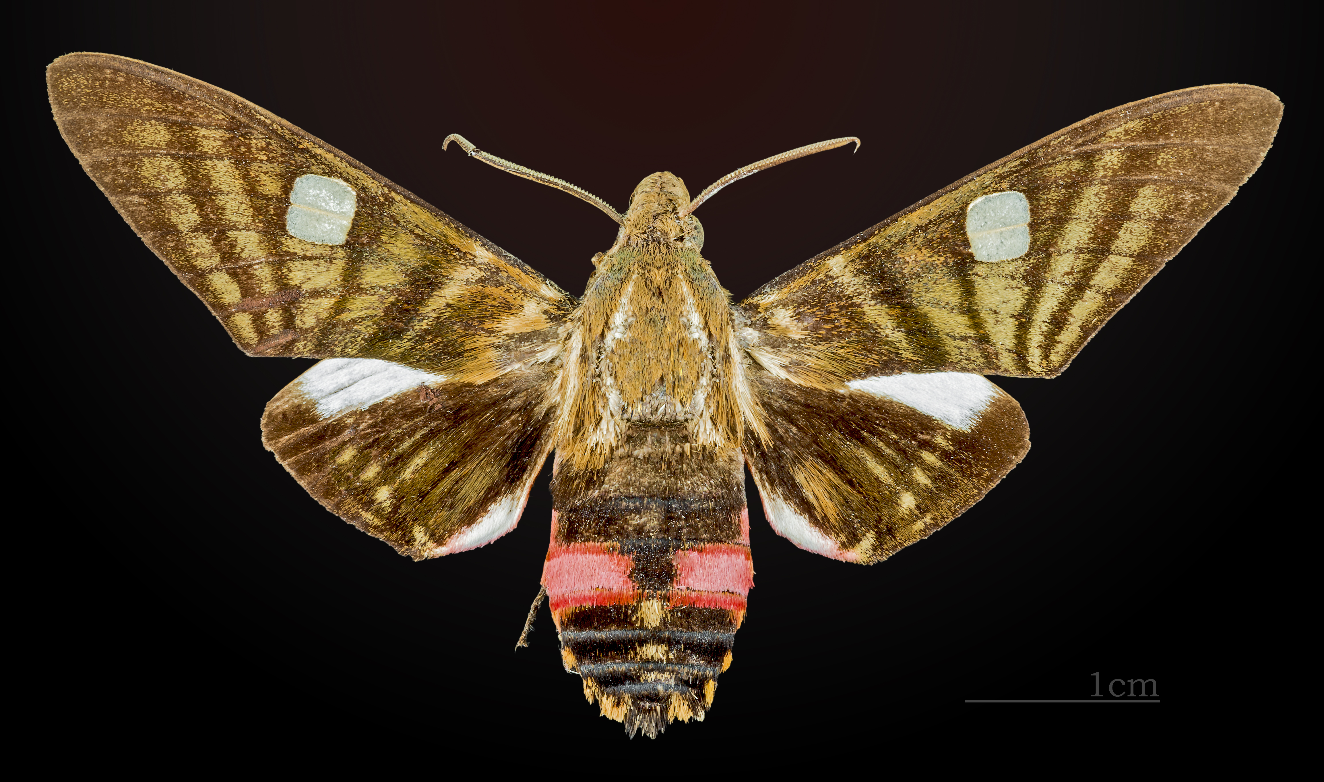 Hayesiana triopus - Dorsal side Collection of the Mathematician Laurent Schwartz